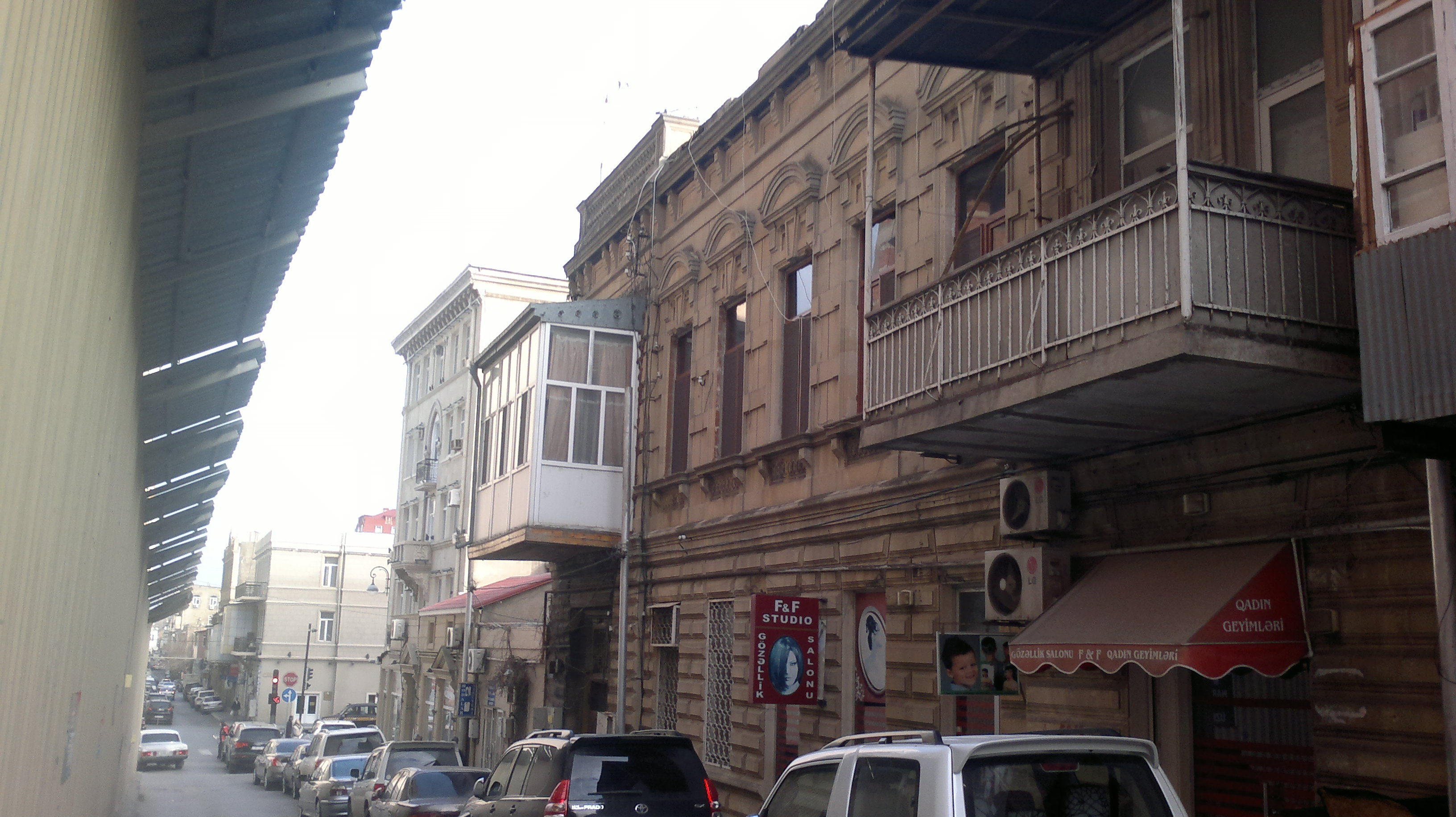 Building on Bashir Safaroglu Street 102. Built in 1899.